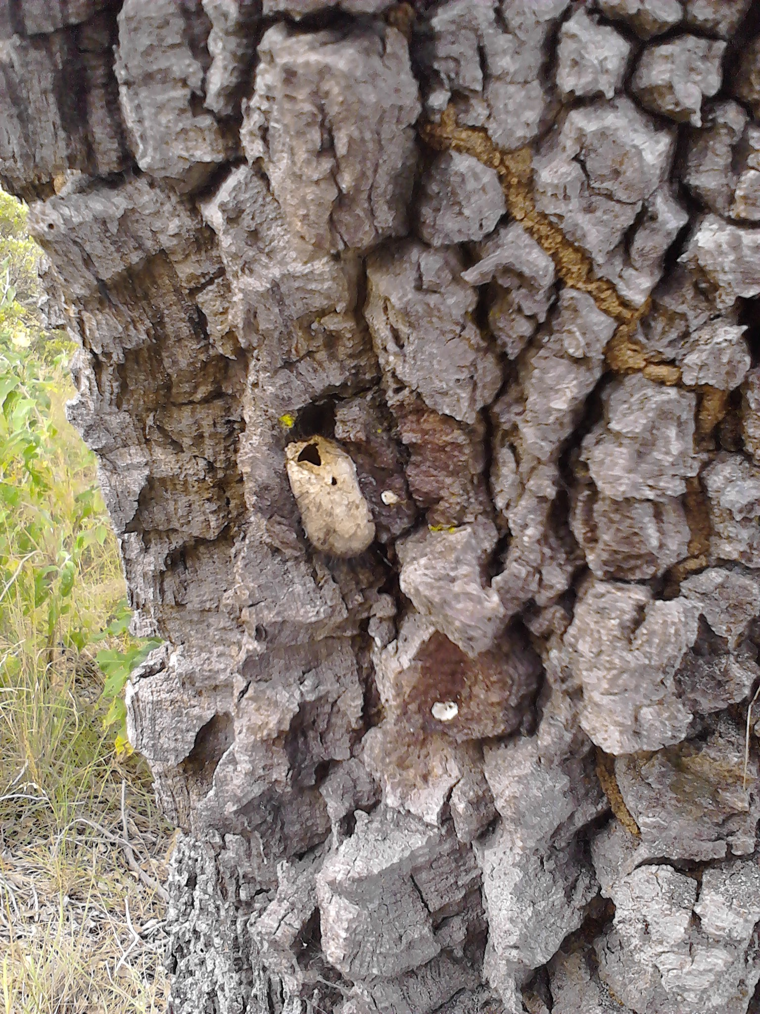 Empty cocoon of a wild silkworm (Borocera madagascariensis) on bark of a tapia tree (Uapaca bojeri). Itremo protected area, Central Highlands of Madagascar.